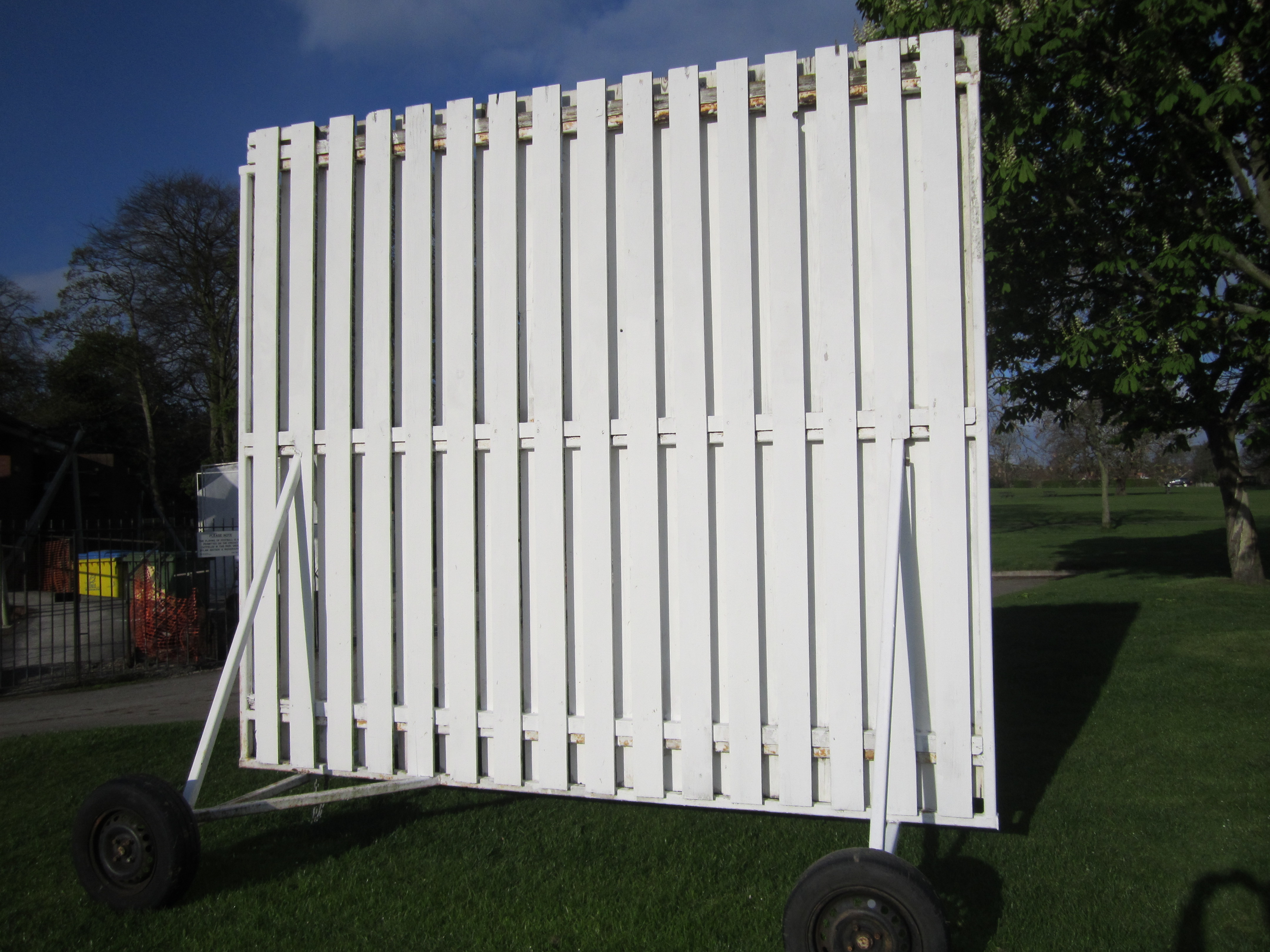 Cricket sight screen at Birkenhead Park, Merseyside, England.